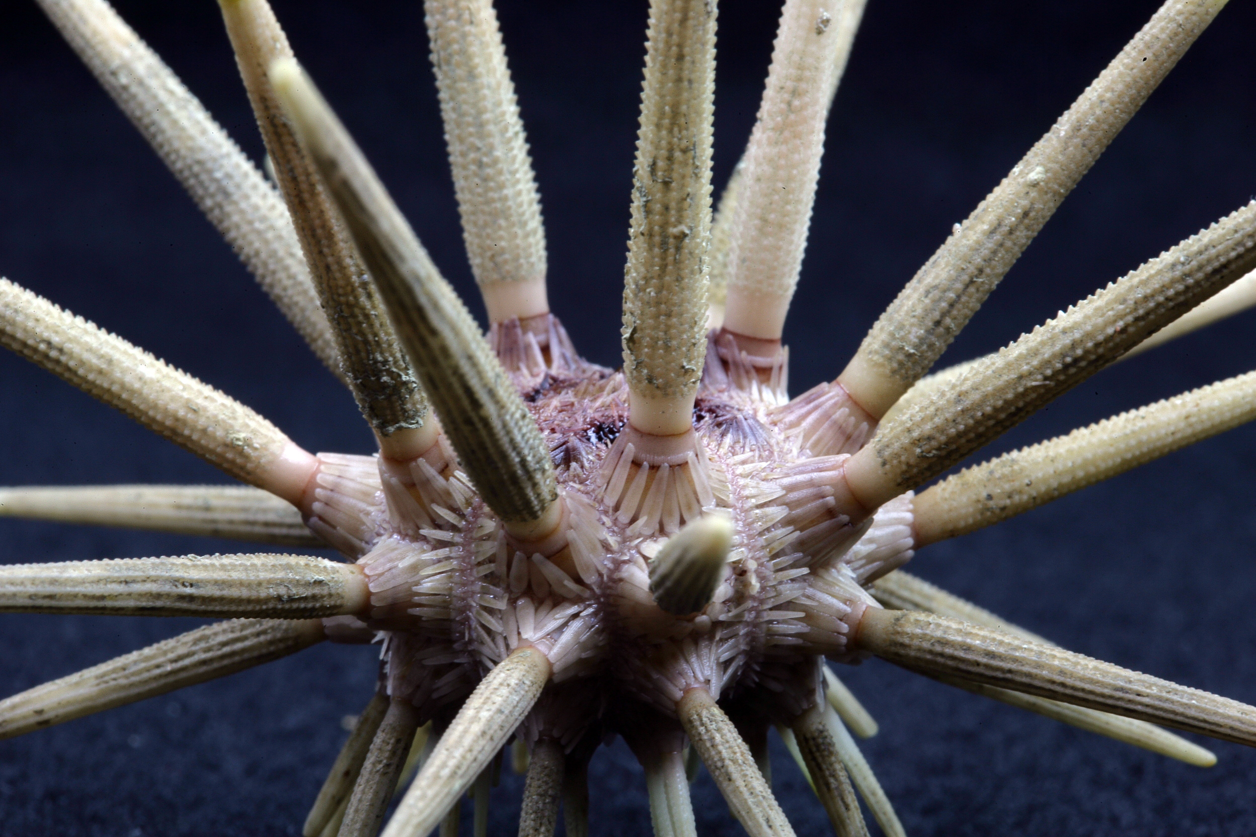 Cidaris sp. A common sea urchin member of the deep coral community , usually referred to as a pencil urchin. Life on the Edge 2005 Expedition. Offshore North Carolina. 2005 October 18.